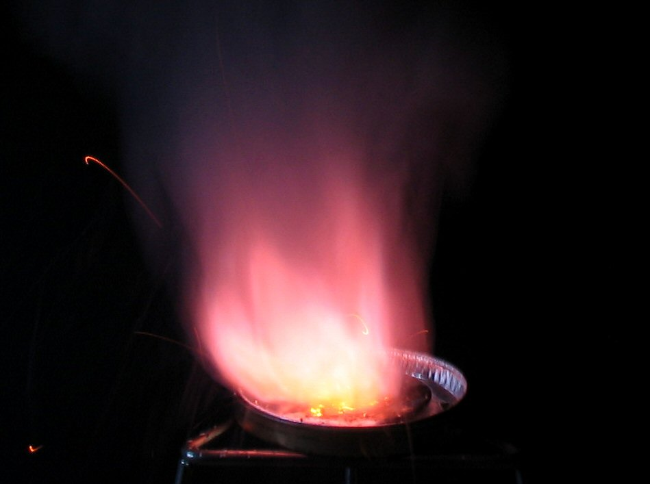 A mixture of potassium nitrate and icing sugar burns rapidly when ignited. The pink color is due to potassium ions.